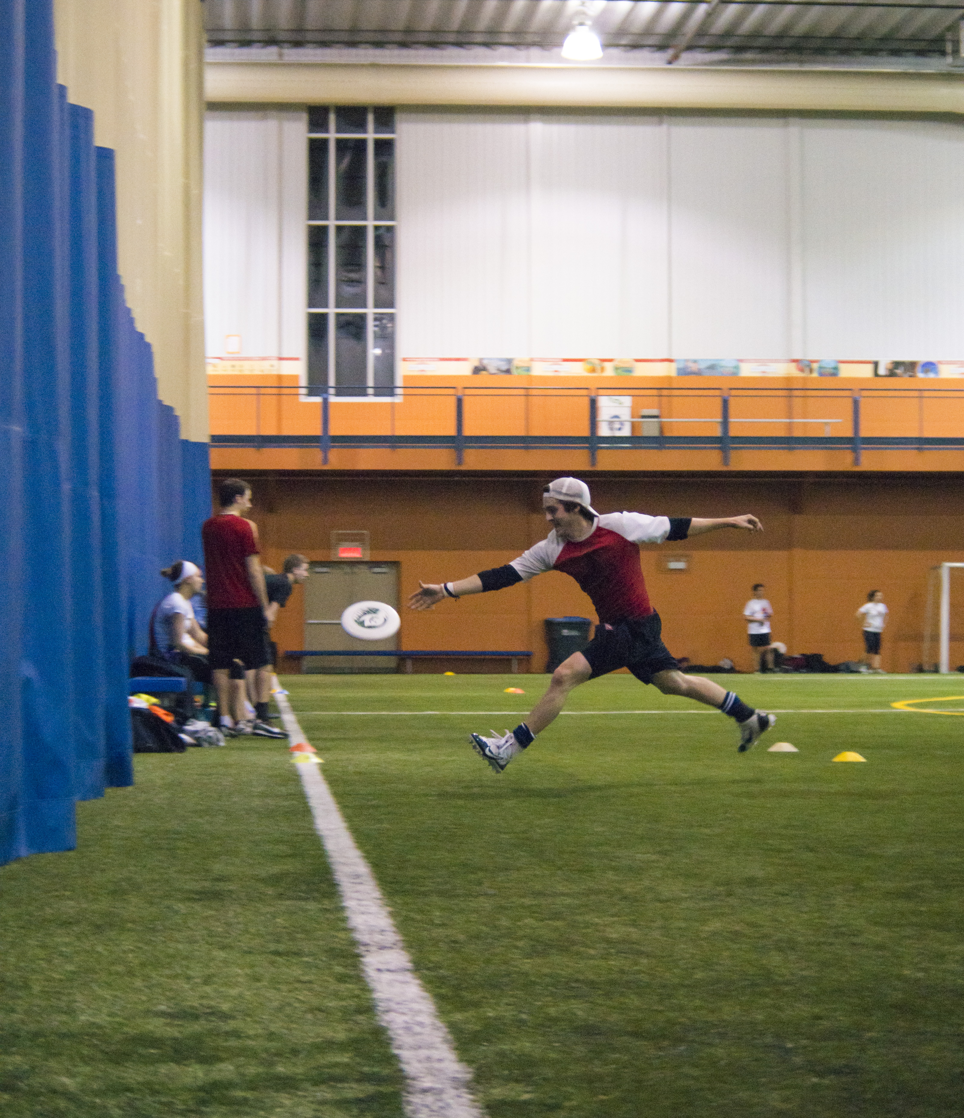 Indoor match of Ultimate frisbee. The player within the end zone is tying to reach the disc in order to score.